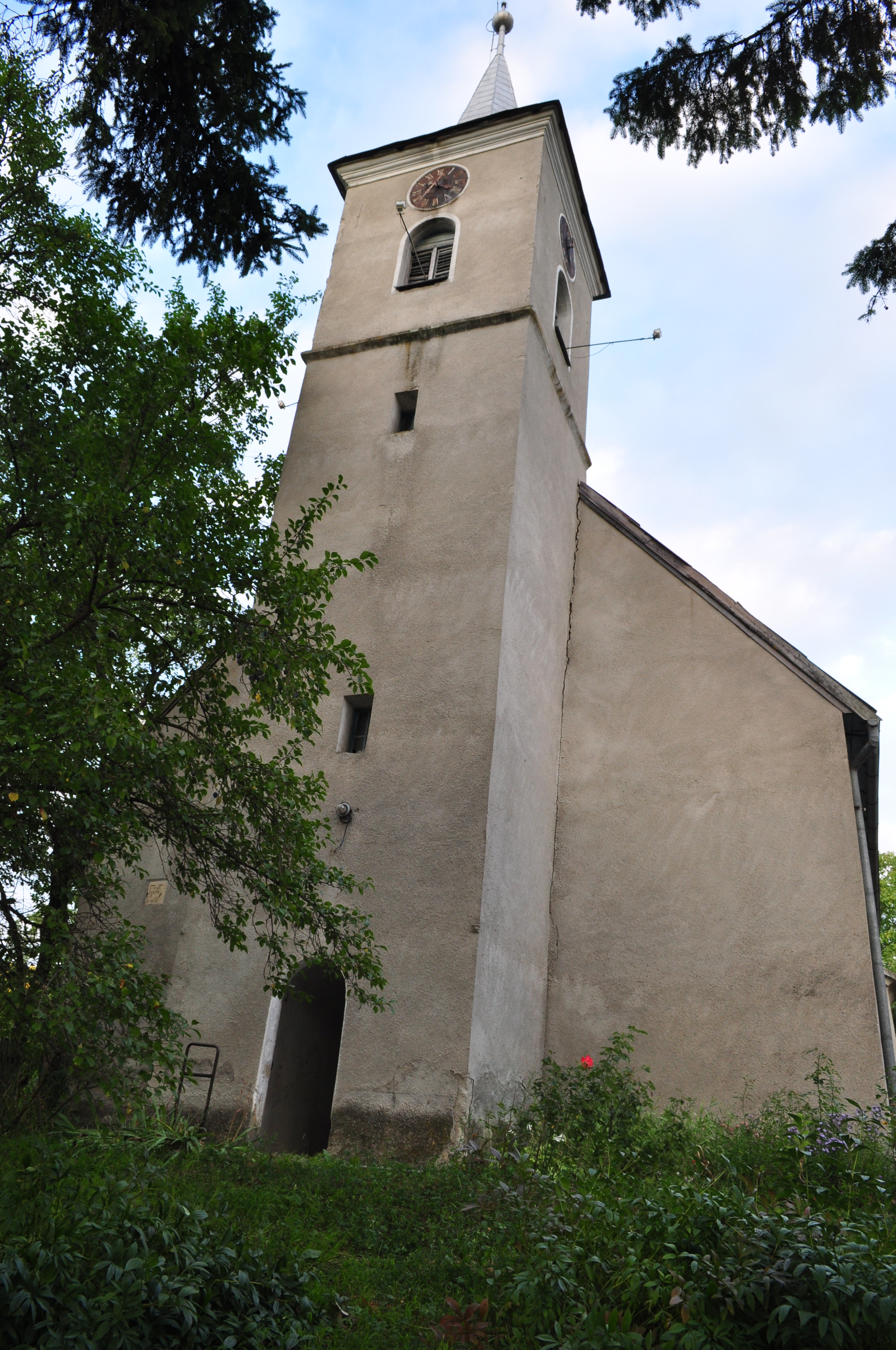 Protestant church in Chidea, Cluj countyRomână: Biserica reformată din Chidea, județul Cluj